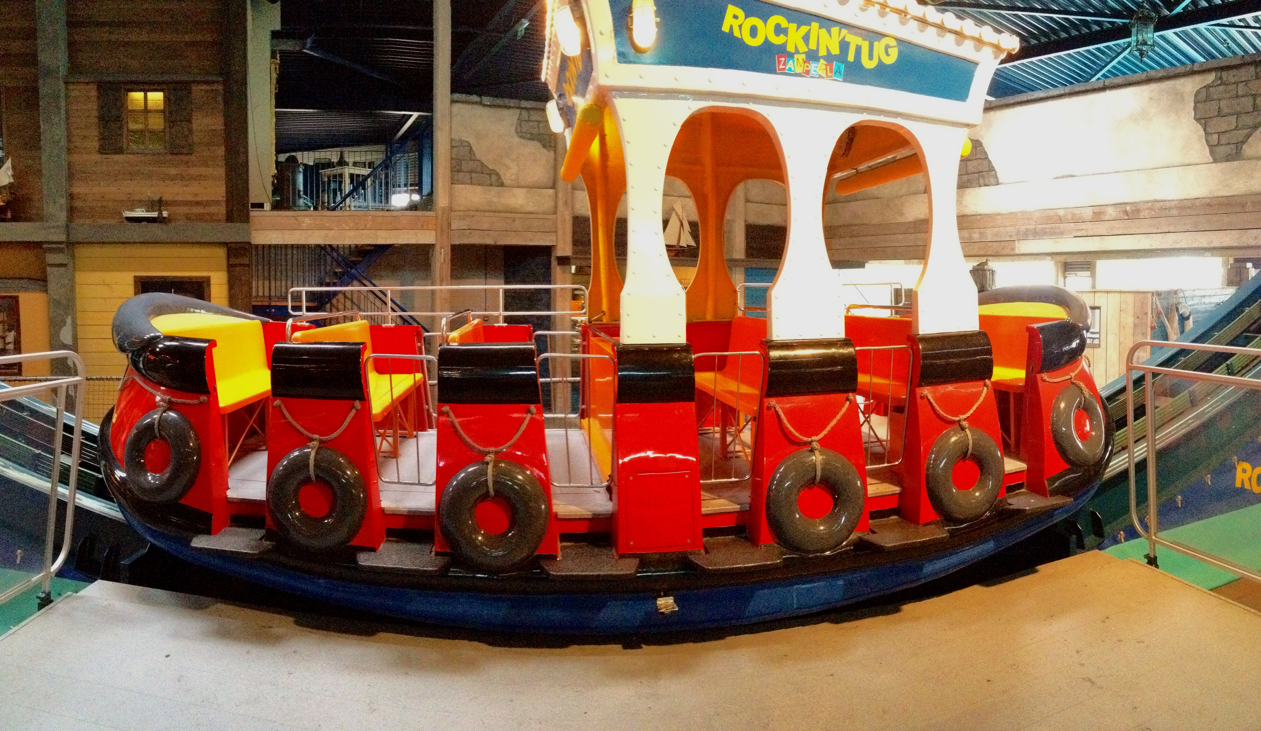 The Rockin' Tug by Zamperla, at family park Dippie Doe.